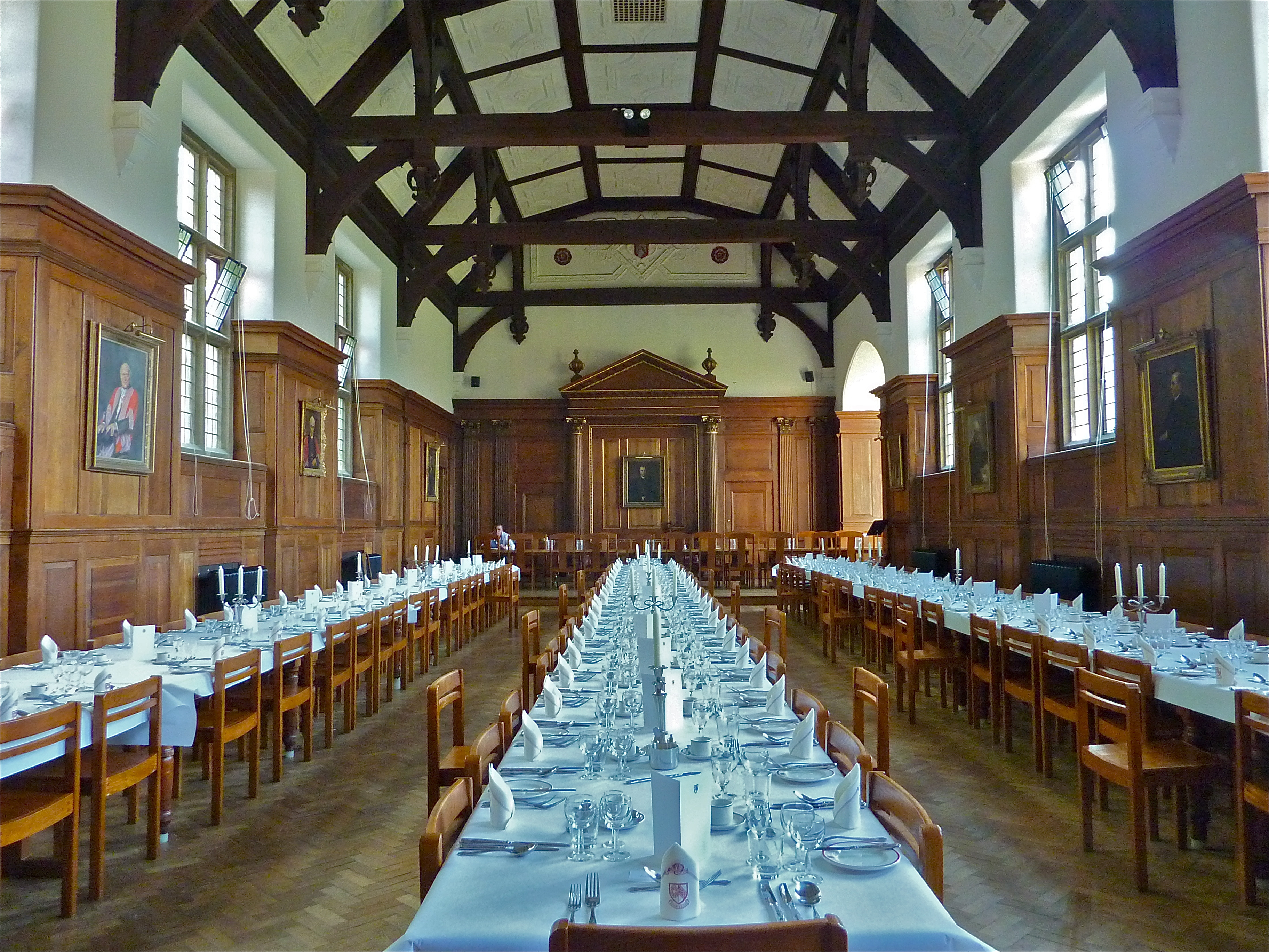 A photograph of the Dining Hall at Selwyn College, Cambridge.